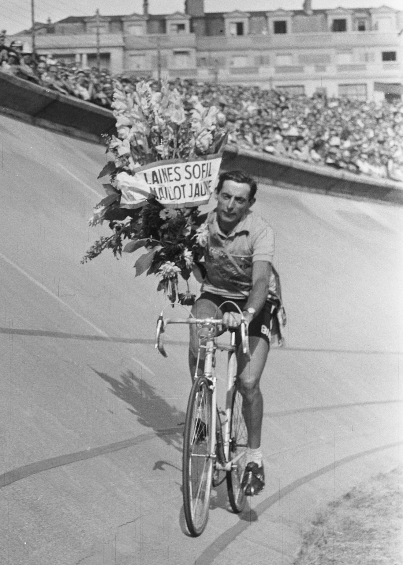 Fausto Coppi at the 1952 Tour de France.